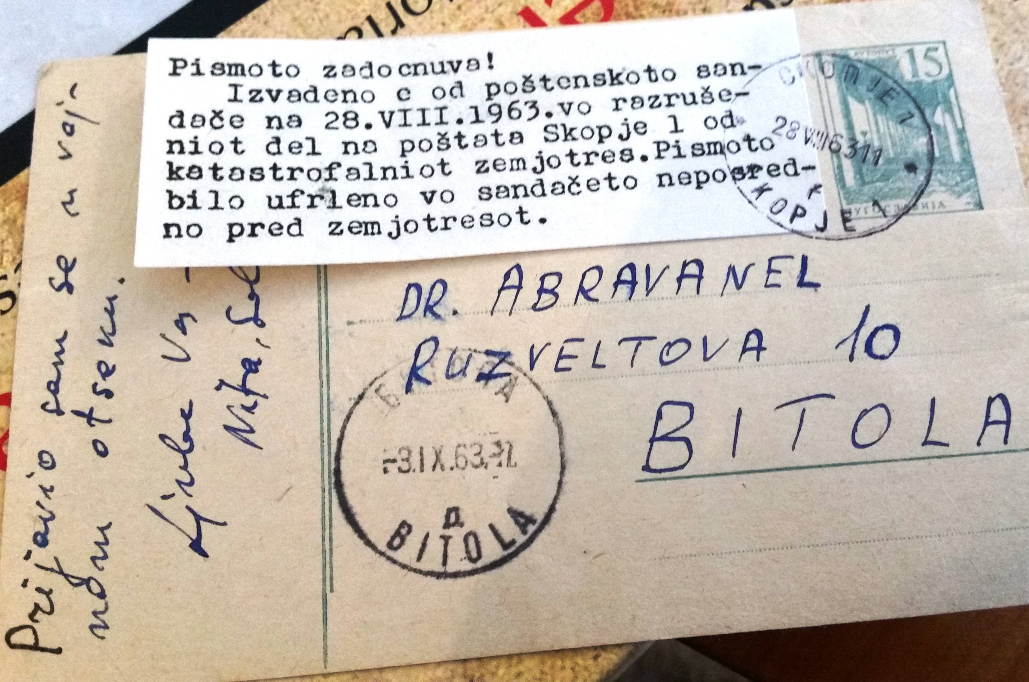 Last postcard from the Levy family from Skopje 1963, addressed to Dr. Haim Abravanel in Bitola. Found in the Ruins of the post office building after the earthquake. Credit: For the commemoration of Dr. Salvator and Reni Levy, the Abravanel and Levy Families, and the community of Macedonian Jews.